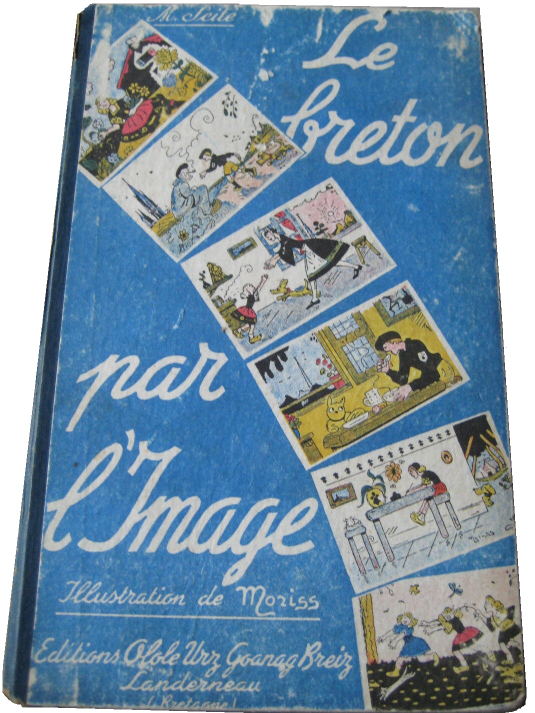 Scanned cover of "Le breton par l"Image", 1944, first edition by Ololê - Urz Goanag Breiz